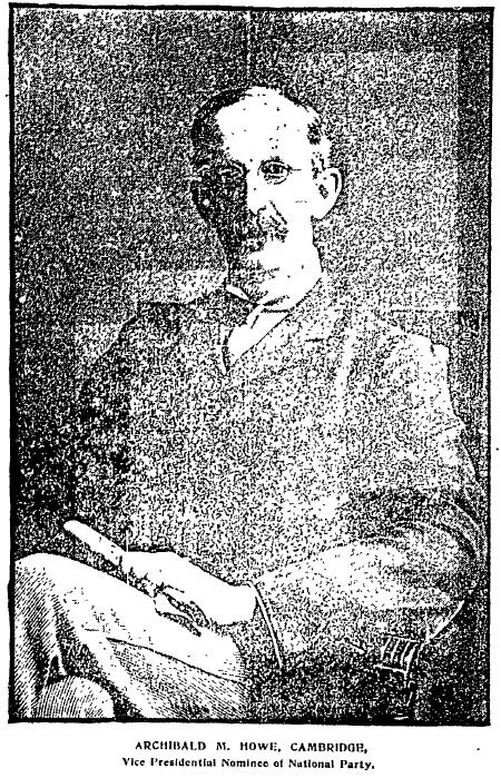 Article in The Boston Daily Globe, 9 Sept 1900, 16